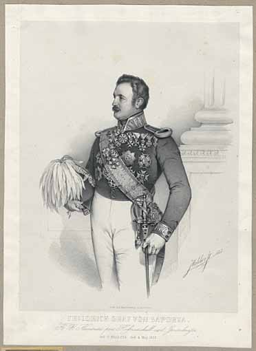 The royal bavarian general Friedrich Karl Graf von Saporta (1794-1853)